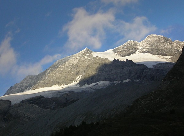 Monte Leone seen from Simplonpass Picture taken by user Idefix august 2006